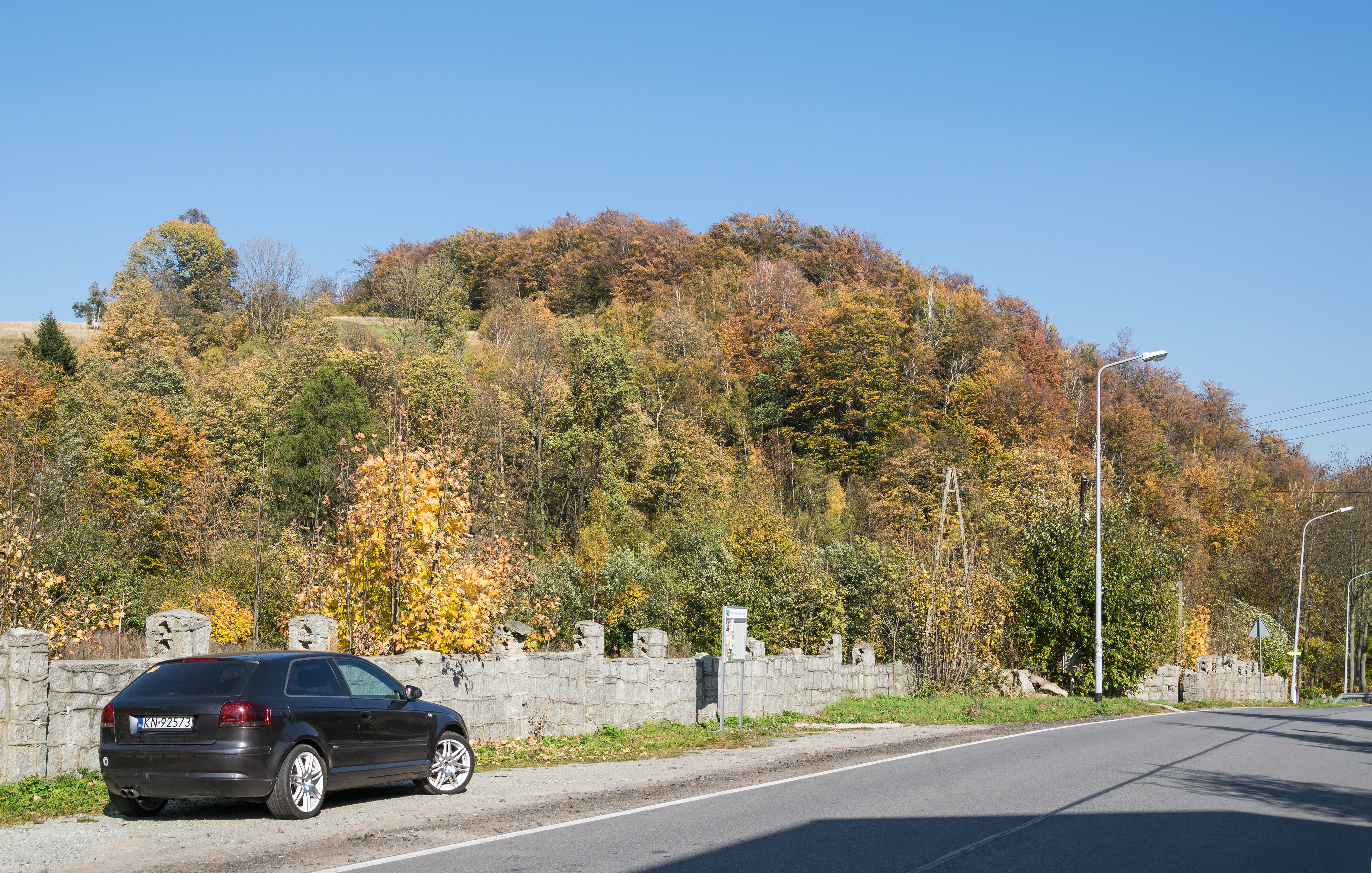 Ostra, Góry Sowie, Sudetes